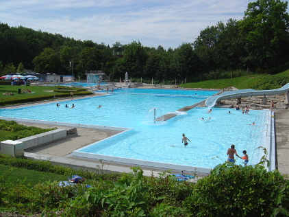 "Bachtalen" public swimming pool in Möhlin